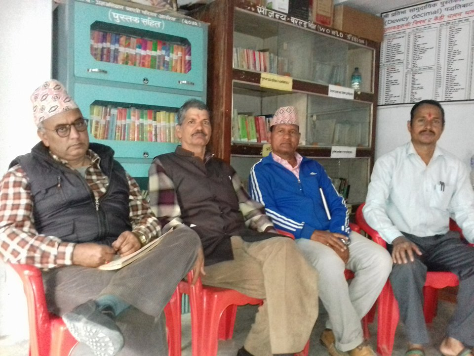 साथिहरु संगै निर्मल भण्डारी